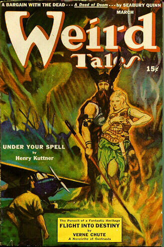 Cover of the pulp magazine Weird Tales (March 1943, vol. 36, no. 10) featuring Flight into Destiny by Verne Chute and Under Your Spell by Henry Kuttner. Cover art by E. Franklin Wittmack.